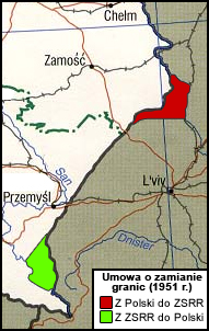 Illustration of Polish-Soviet border change in 1951